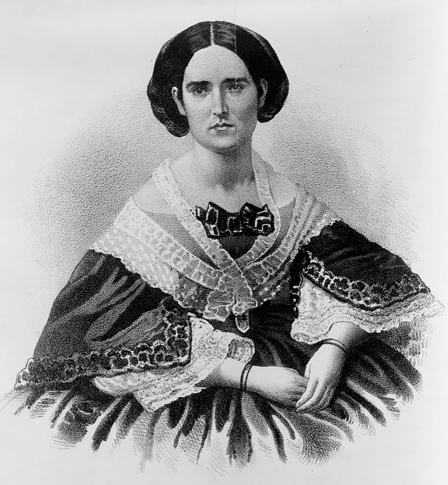 Caroline Lane Reynolds Slemmer Jebb in 1861